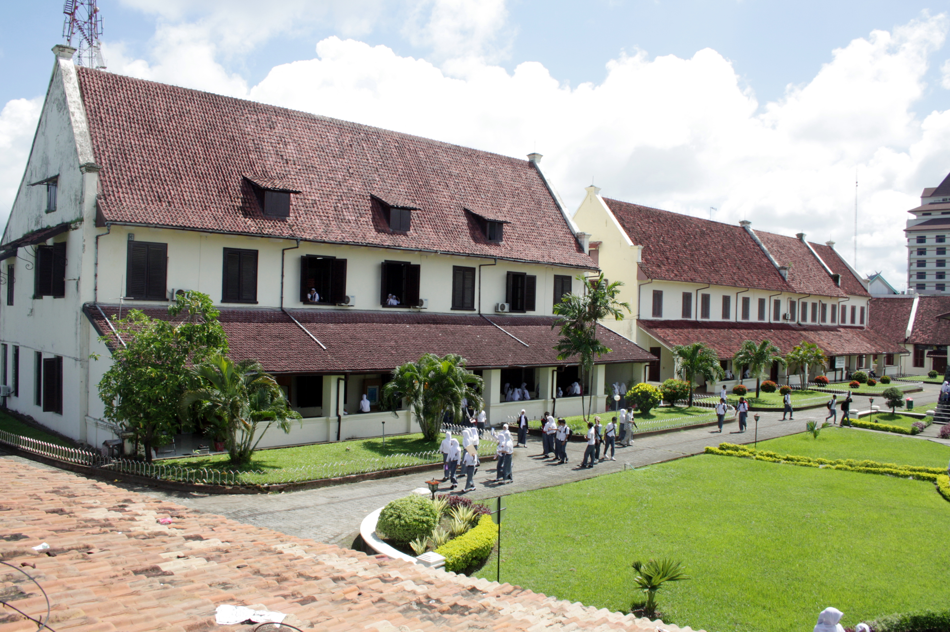 Fort Rotterdam, Makassar 2010